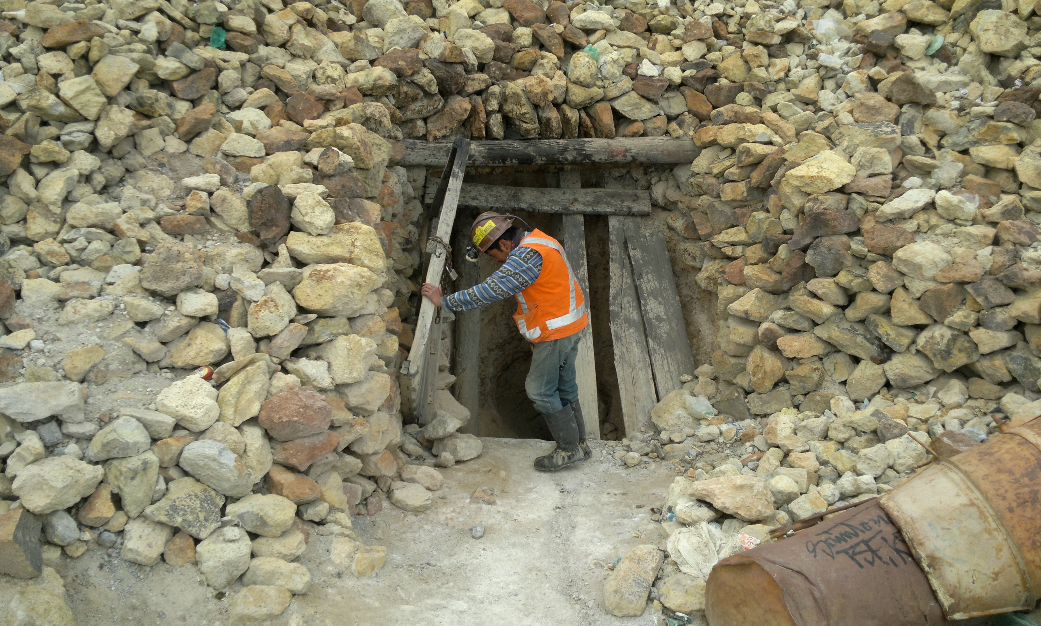 Miner opening the doors of a silver mine in "Cerro Rico", Potosí, Bolivia.